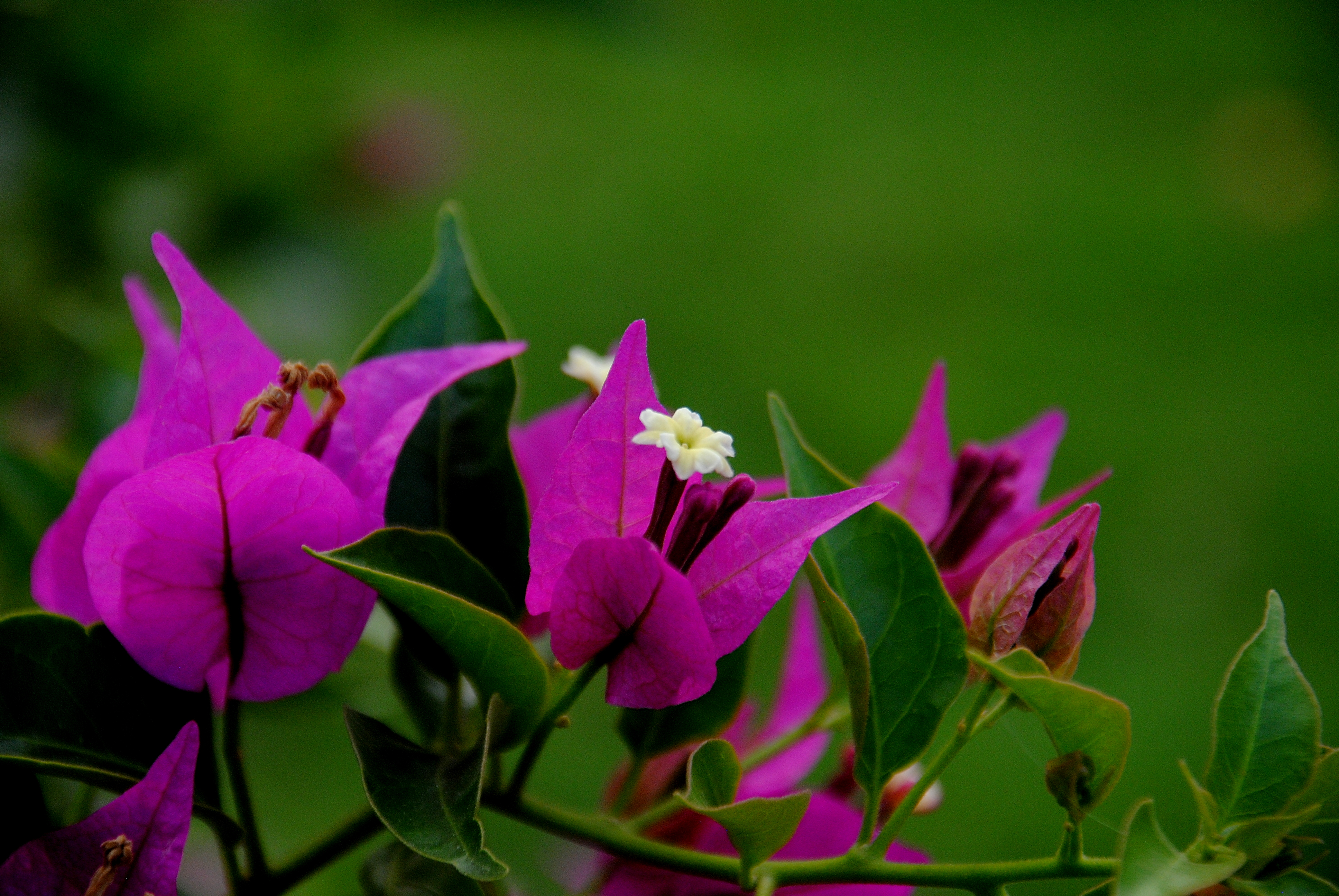 Bougainvillea Flower at Bannargatta National Park